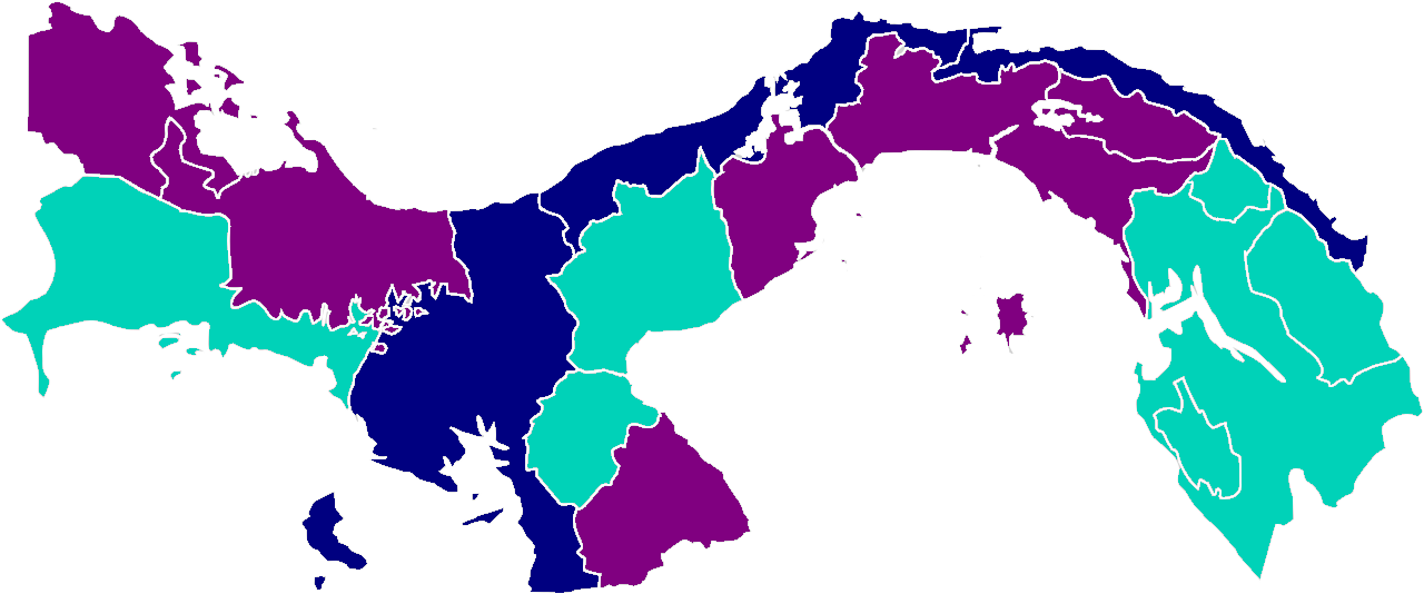 Map of The Election